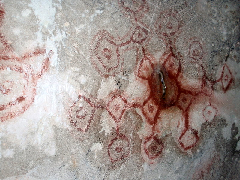 Indian paintings in Fountein Cave